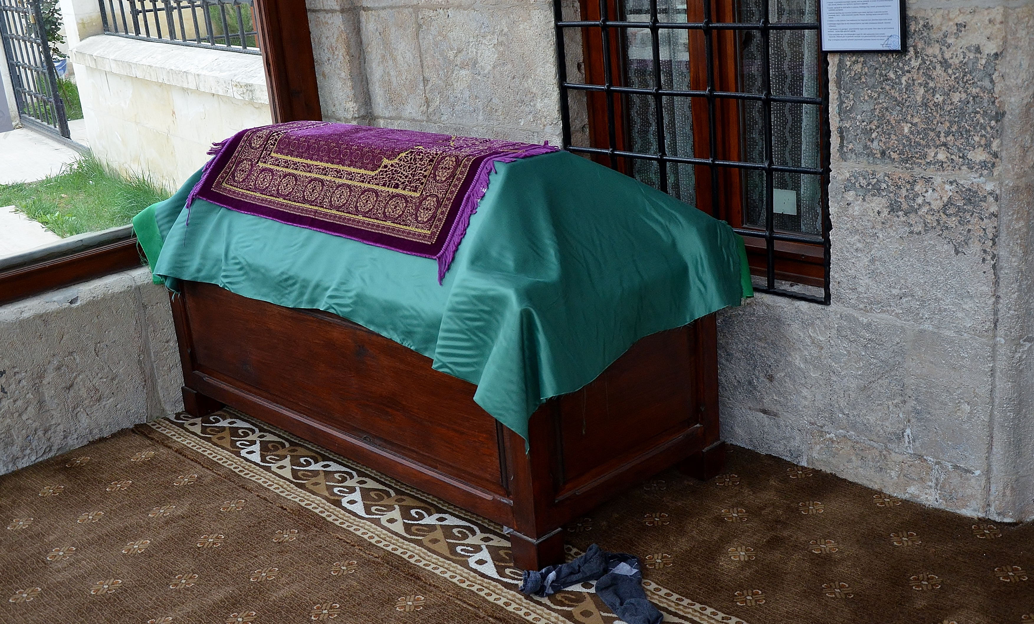 Sarcophagus at Bilal-i Habeş Masdjid in Tarsus, Mersin